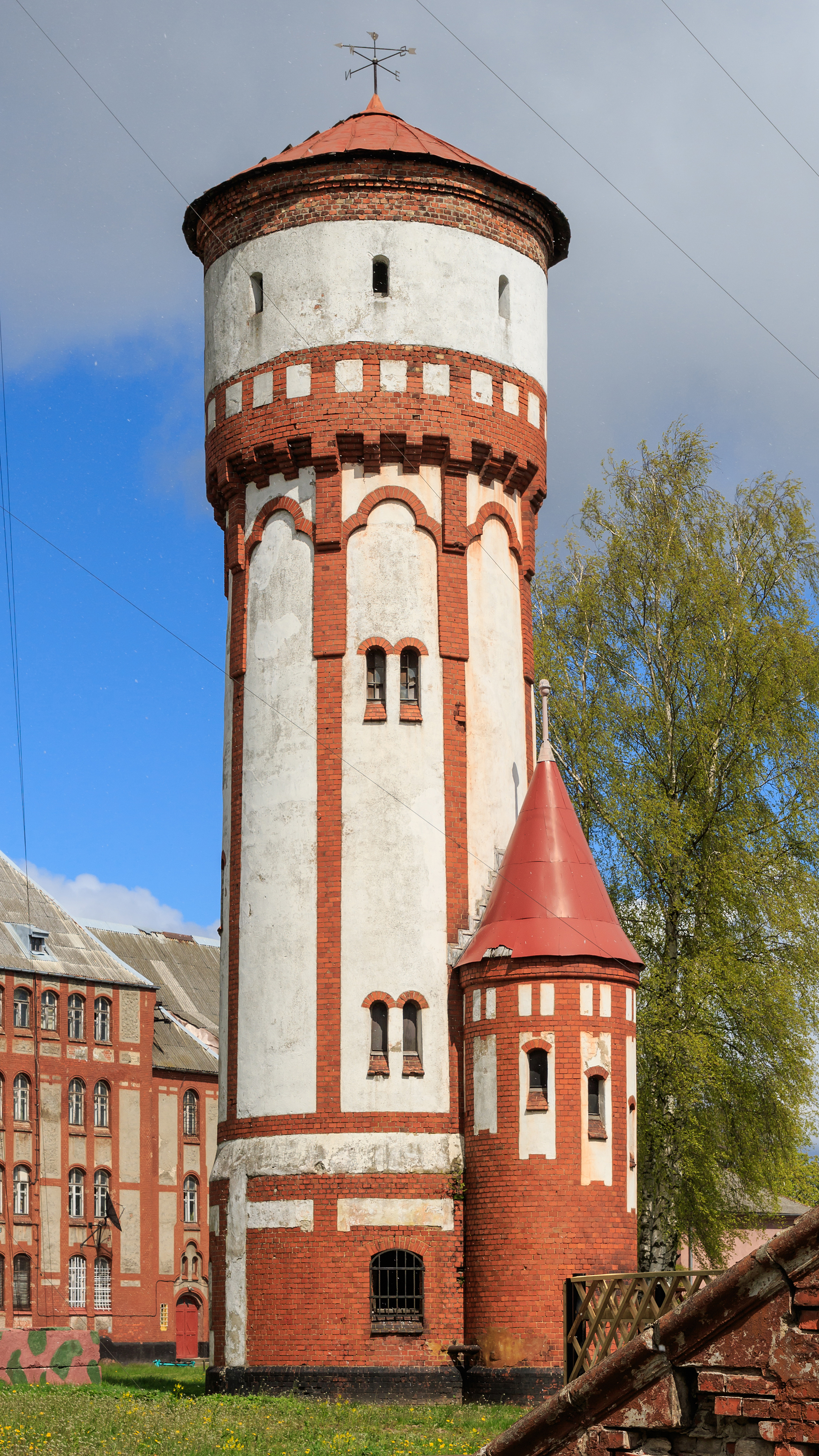 Water tower at infantry barracks in Baltiysk formerly Pillau / Kaliningrad Oblast (Russia).